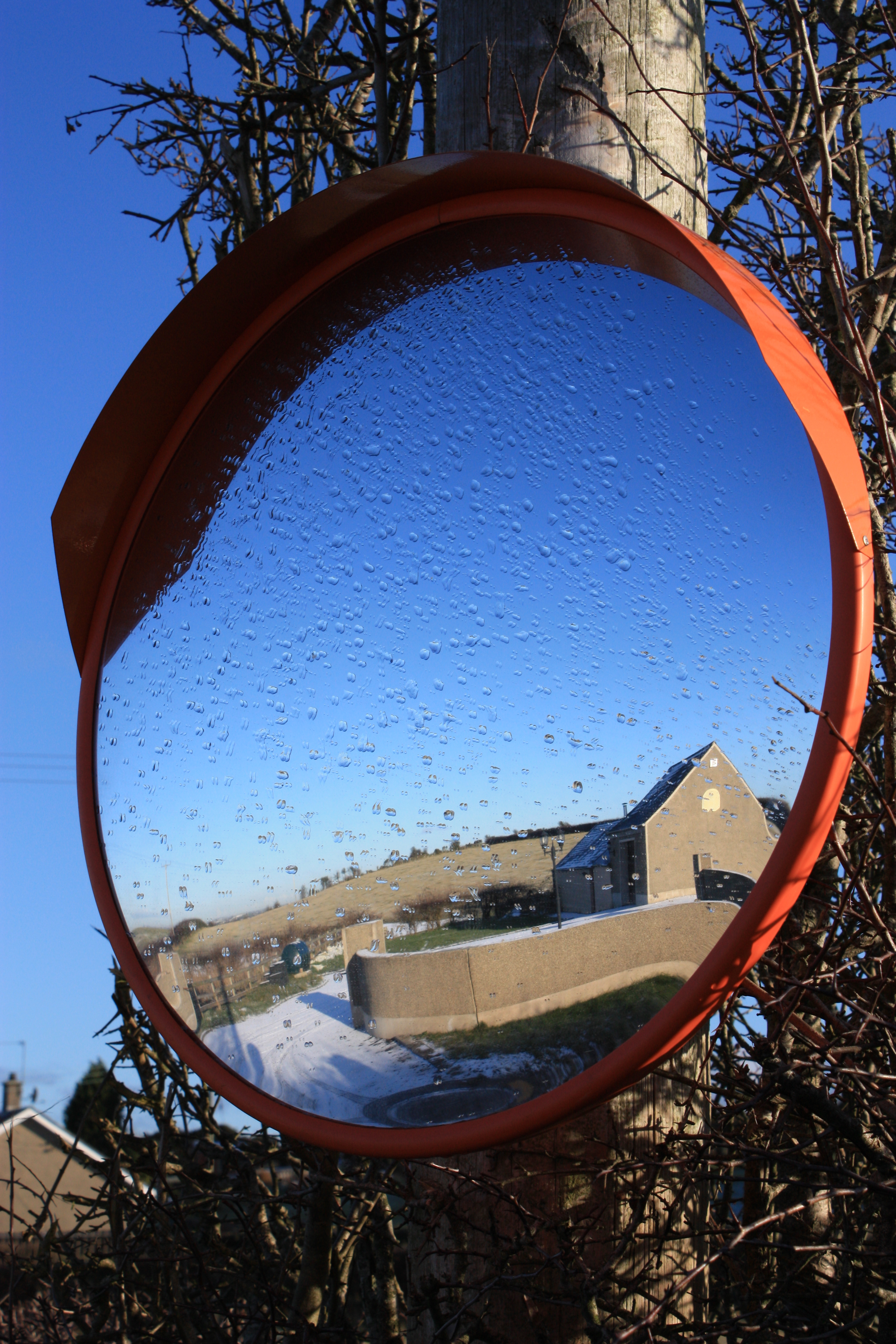 Traffic mirror, Saul Road, Downpatrick, County Down, Northern Ireland, January 2010